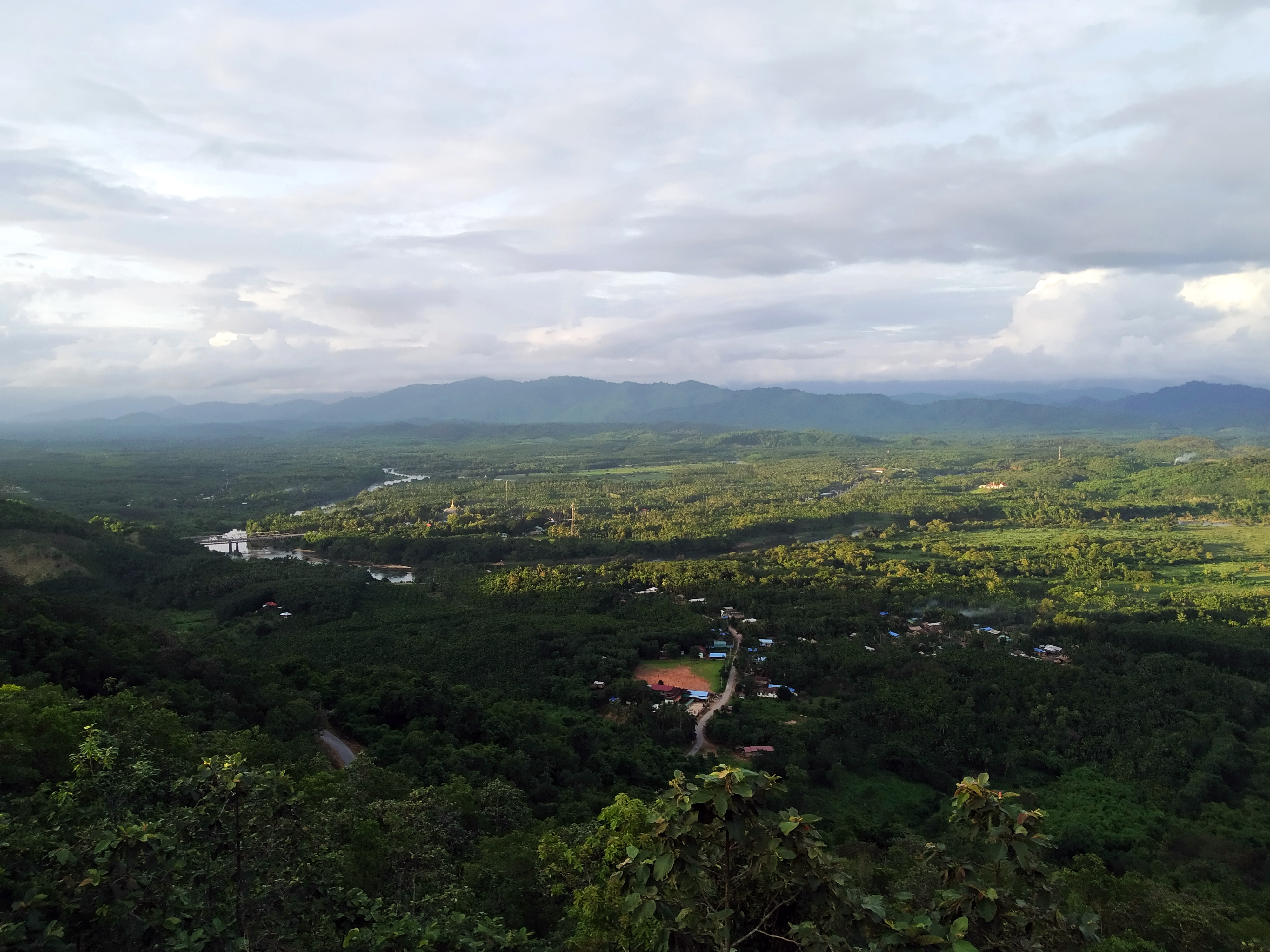 Kaleinaung is a town of Dawei District in the Taninthayi Division of Myanmar.